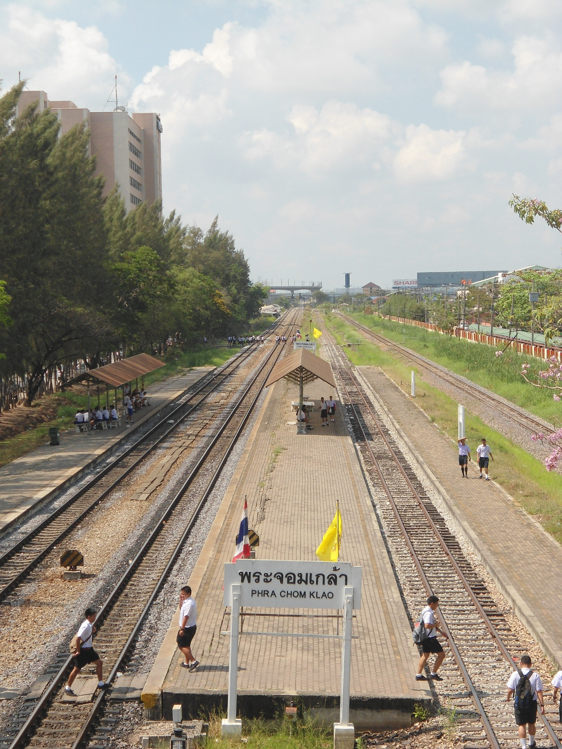 Train station Phra Chom Klao, Lad Krabang district, Bangkok